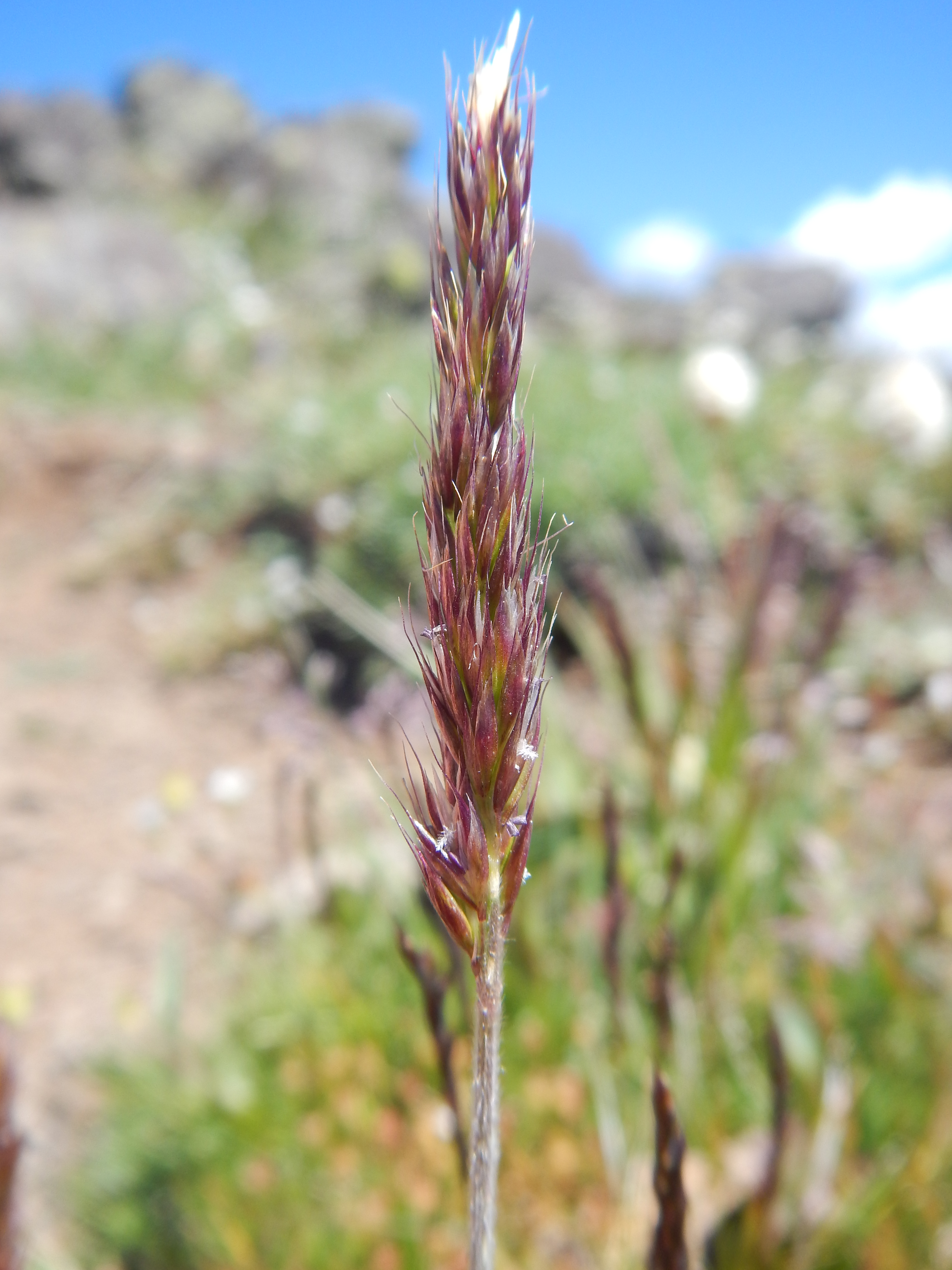 Lemmas awned from the upper half, a hairy rachilla that disarticulates with the adjacent floret (and is thus tucked into the palea groove), bunched habit of open montane settings, and velvety hairy stems and leaves are diagnostic of spike Trisetum.